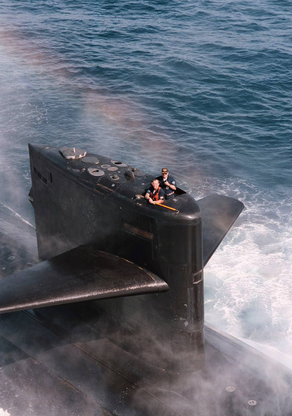 960717-N-2381V-002 Crewman on board the U.S. Navy’s Los Angeles-class attack submarine USS Baltimore (SSN 704) stand by with a grappling hook to snag a mail shipment being lowered by an SH-60 "Seahawk" helicopter from Anti-Submarine Squadron Five (HS-5) July 17, 1996. The Baltimore is part of the aircraft carrier USS George Washington (CVN 73) Battle Group, which is just days away from completing their scheduled six-month deployment in the Mediterranean. The George Washington will be returning to homeport, July 23rd after completing a scheduled six-month deployment to the Mediterranean, which included sustained operations in support of the NATO-led peacekeeping in Bosnia and UN sanctions against Iraq in the Arabian Gulf. U.S. Navy photo by Photographer's Mate 3rd Class Chris Vickers (Released)